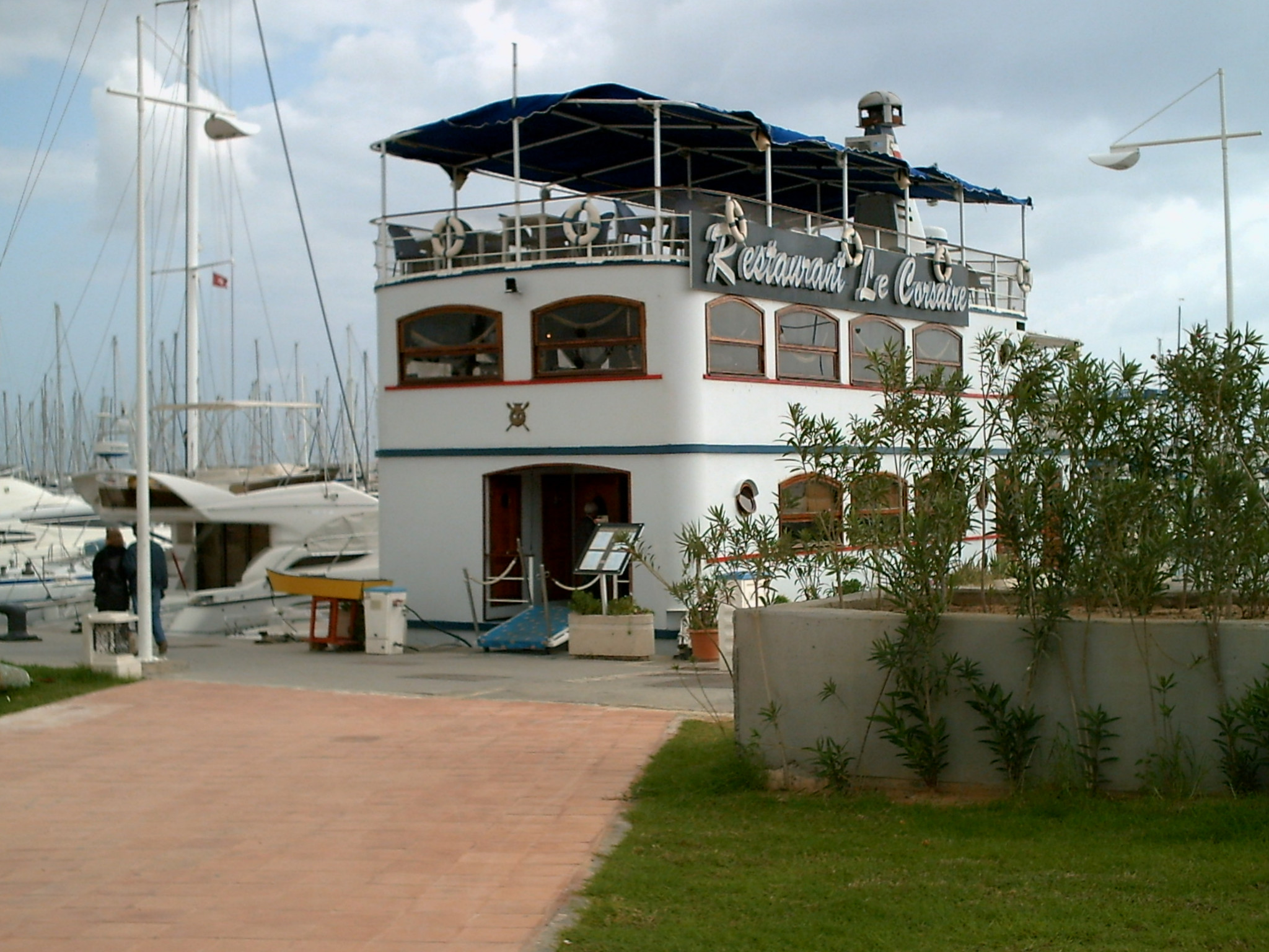 Restaurant ship in the harbour of Yasmine-Hammamet, Tunisia